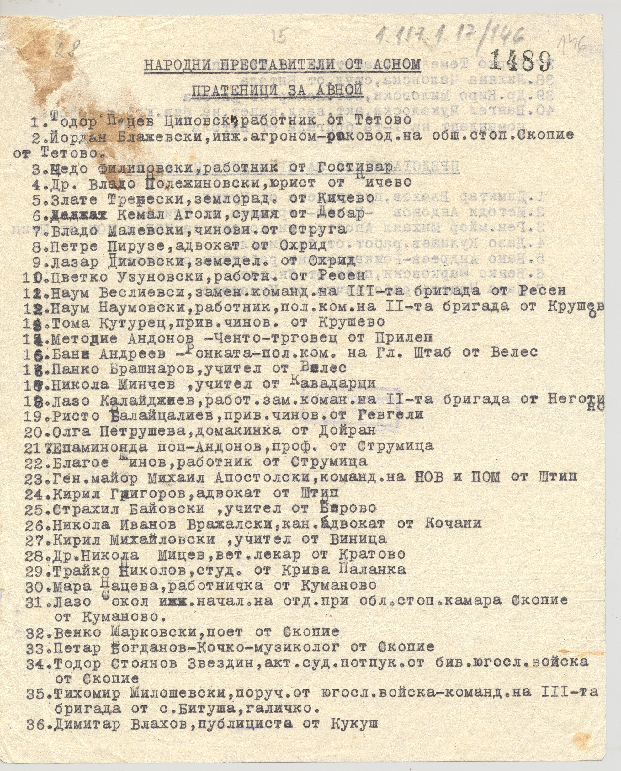 The list of names of delegates for AVNOJ from Macedonia, first page This media file is produced by Wikipedian in Residence in Category:Wikipedian in Residence at DARM in 2016.